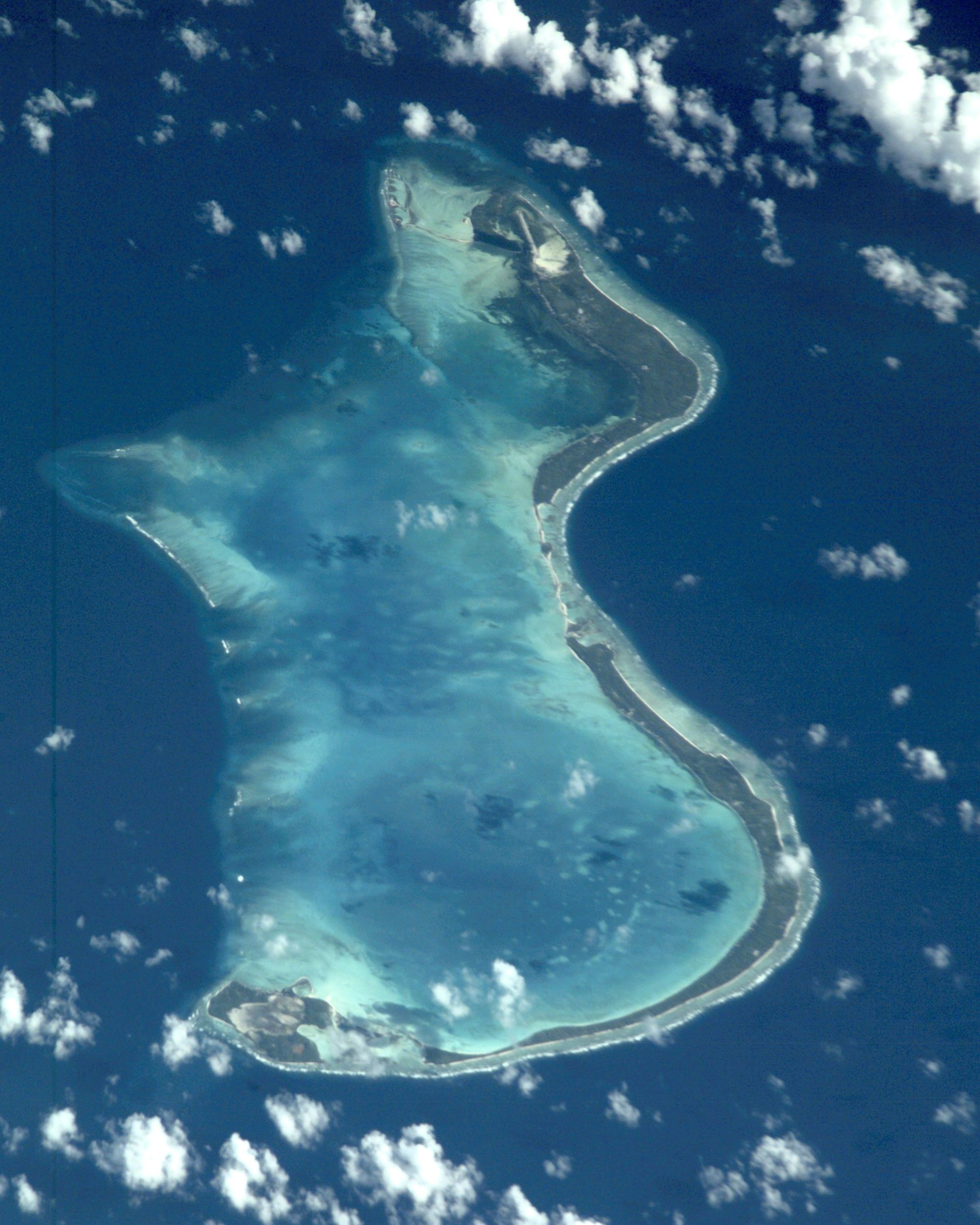 NASA astronaut image of Onotoa Atoll, Gilbert Islands, Kiribati